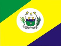 Bandeira de Porto Estrela